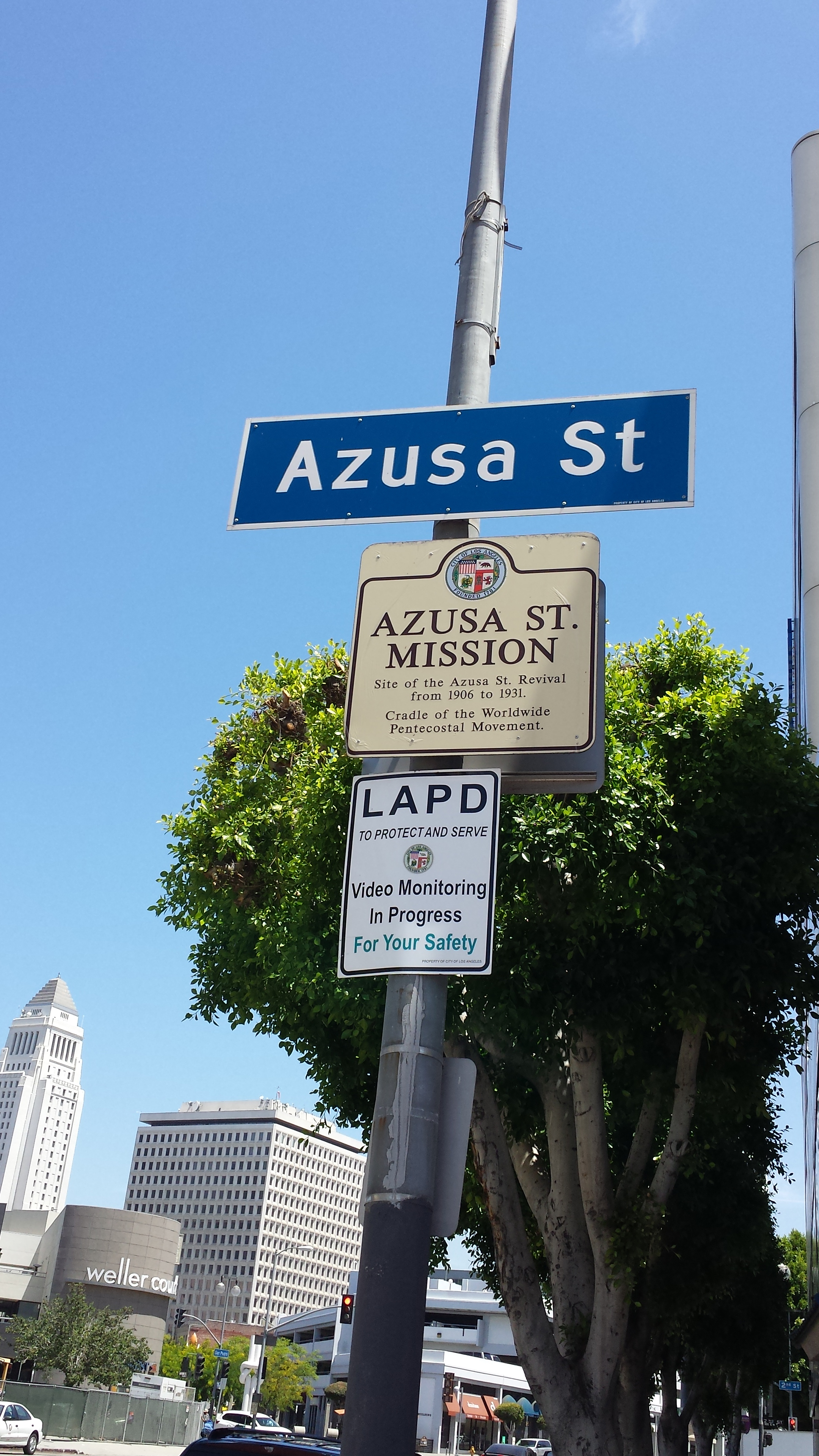 A historical sign located in Los Angeles, California that marks the location of the Azusa Street revival meetings.